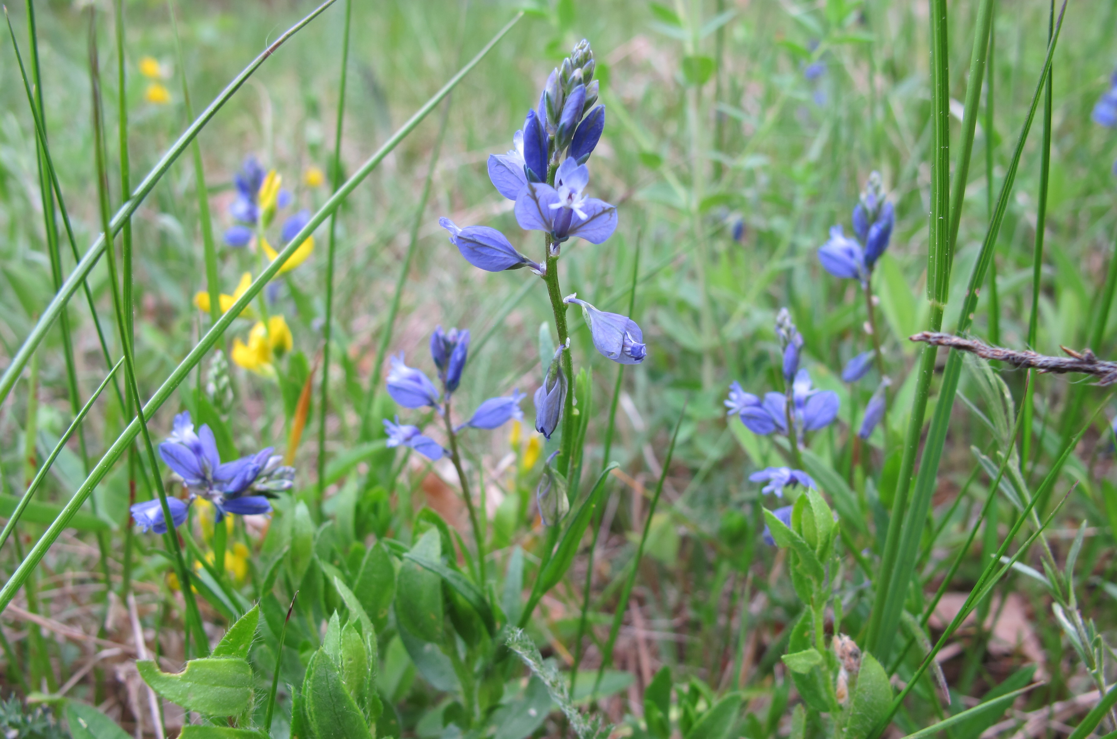 Polygala amarella in natural monument Na horách near Křešín (near Jince) in Příbram Dístrict